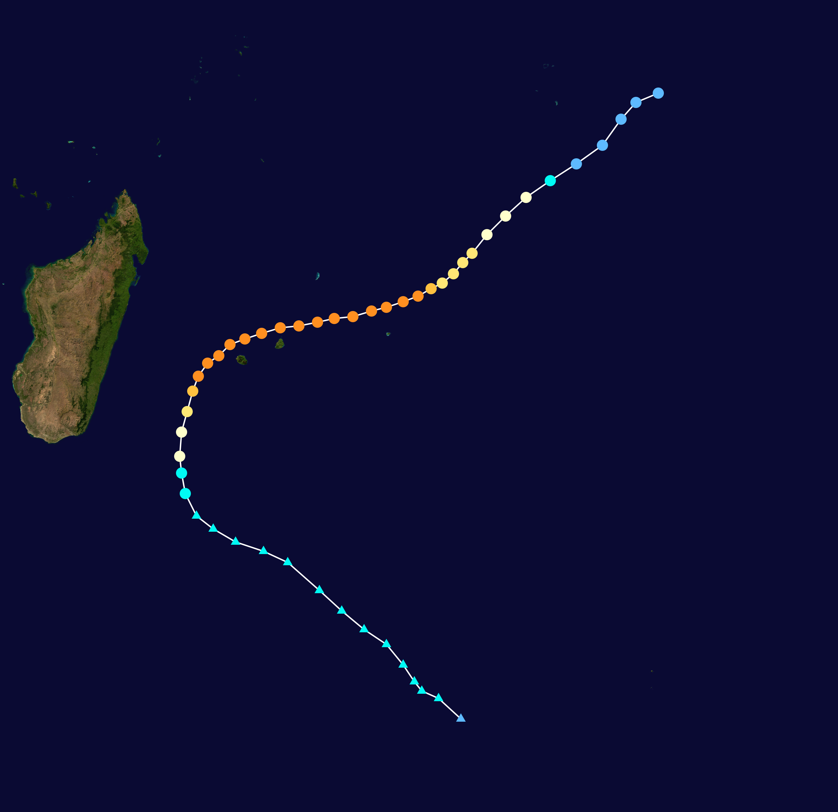 Cyclone Dina (2002) track. Uses the color scheme from the Saffir-Simpson Hurricane Scale.